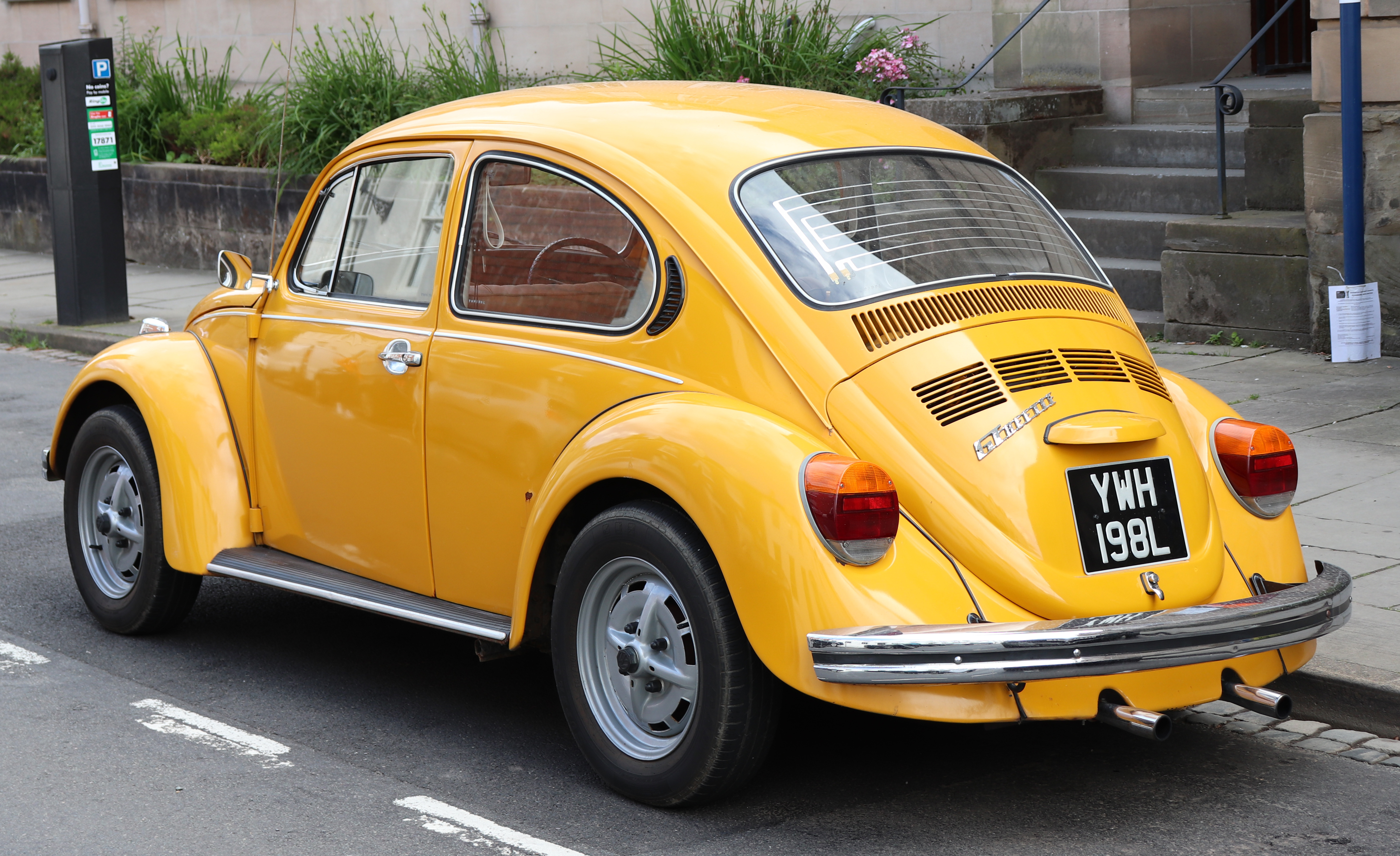 1972 Volkswagen Beetle 1.6 Rear Taken in Warwick